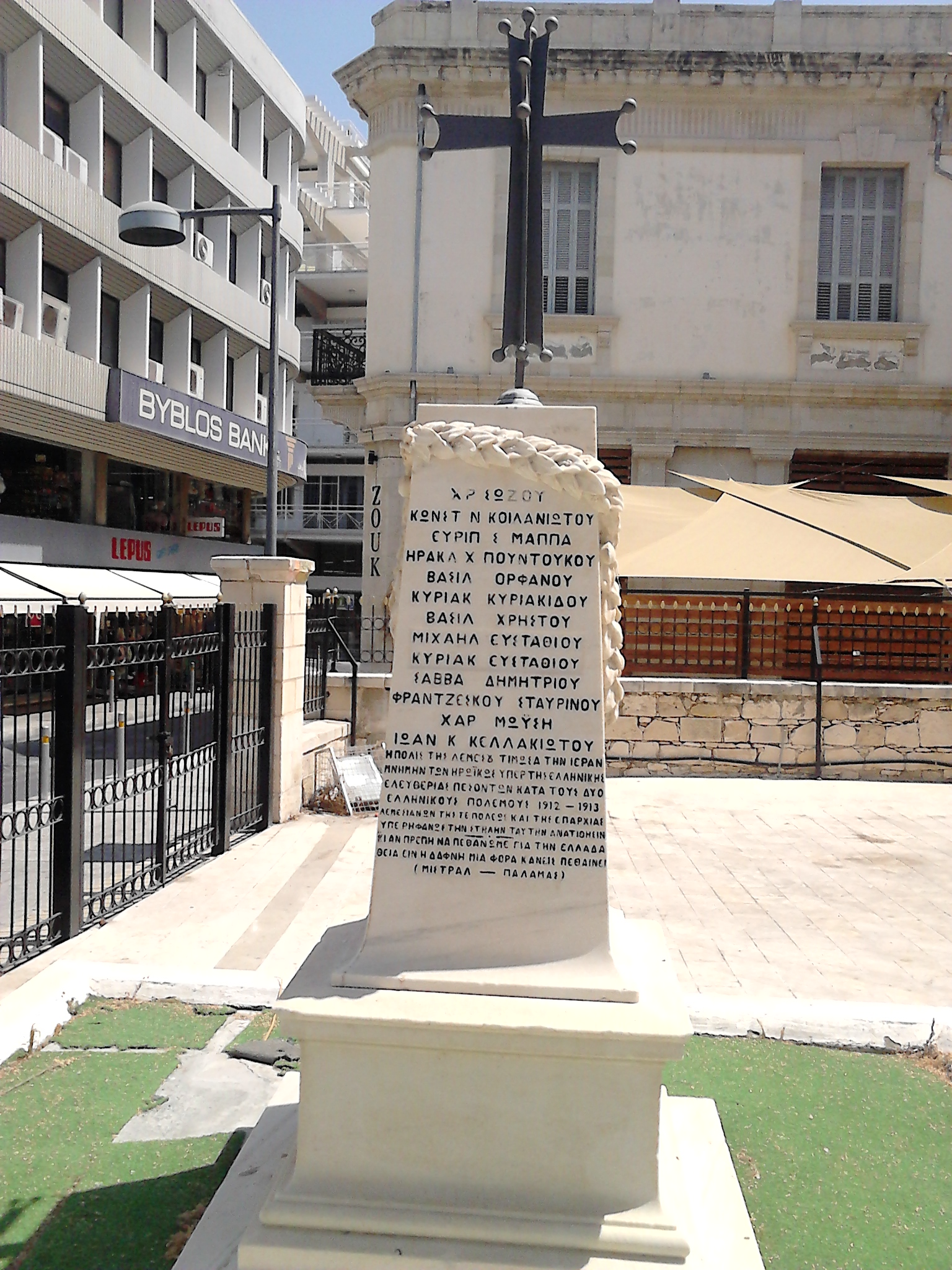 Memorial dedicated to Limassol volunteers who were killed in action while fighting for Greece in the Balkan Wars, Agia Napa Cathedral, Limassol.